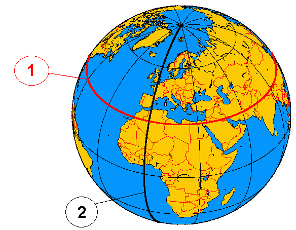 Internationalization of Image:Breitenkreis-und-Nullmeridian.png 1=Circle of latitude 2=Meridian (geography)